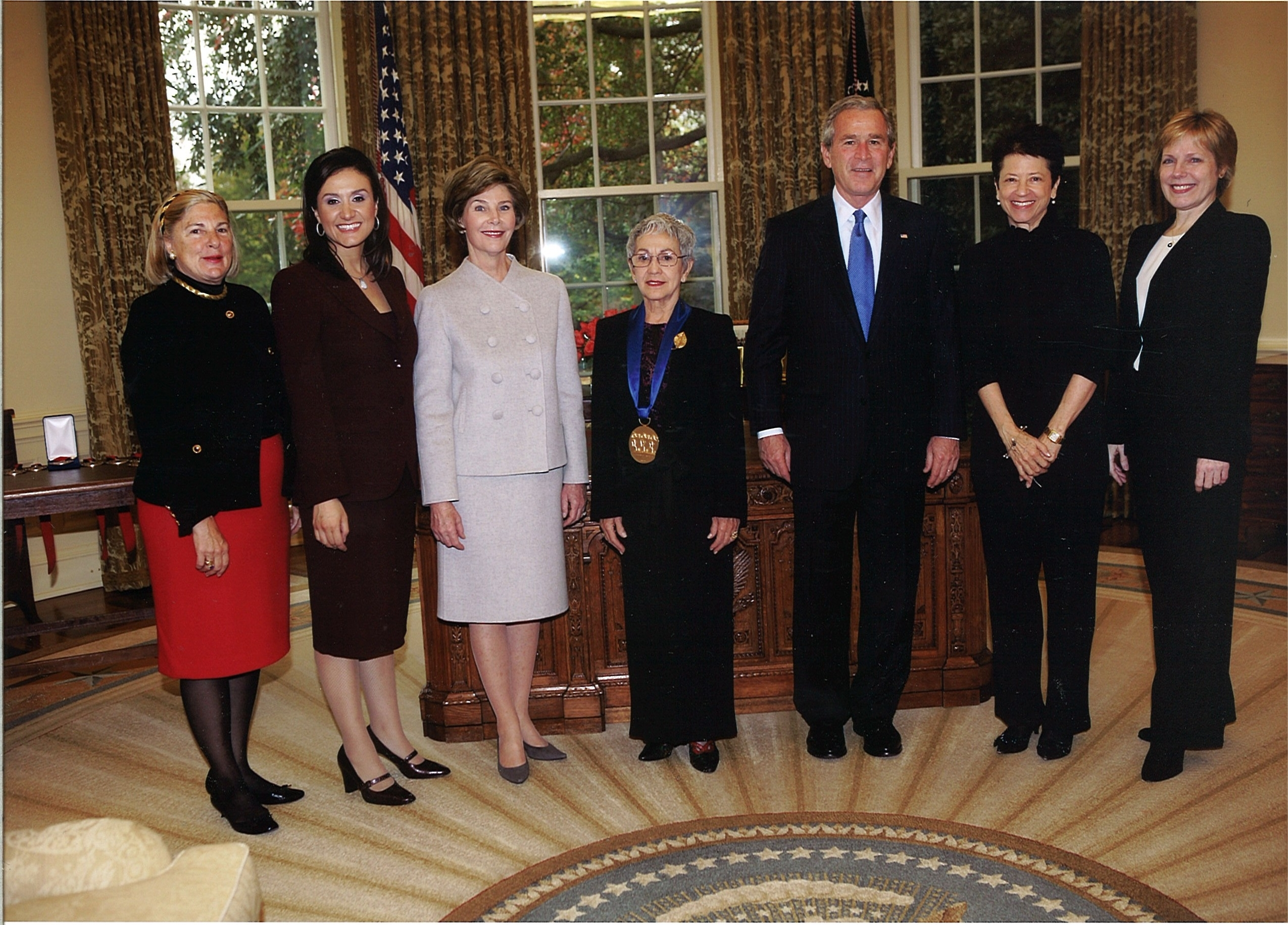 Tina Ramirez in the Medal of Honor Ceremony.